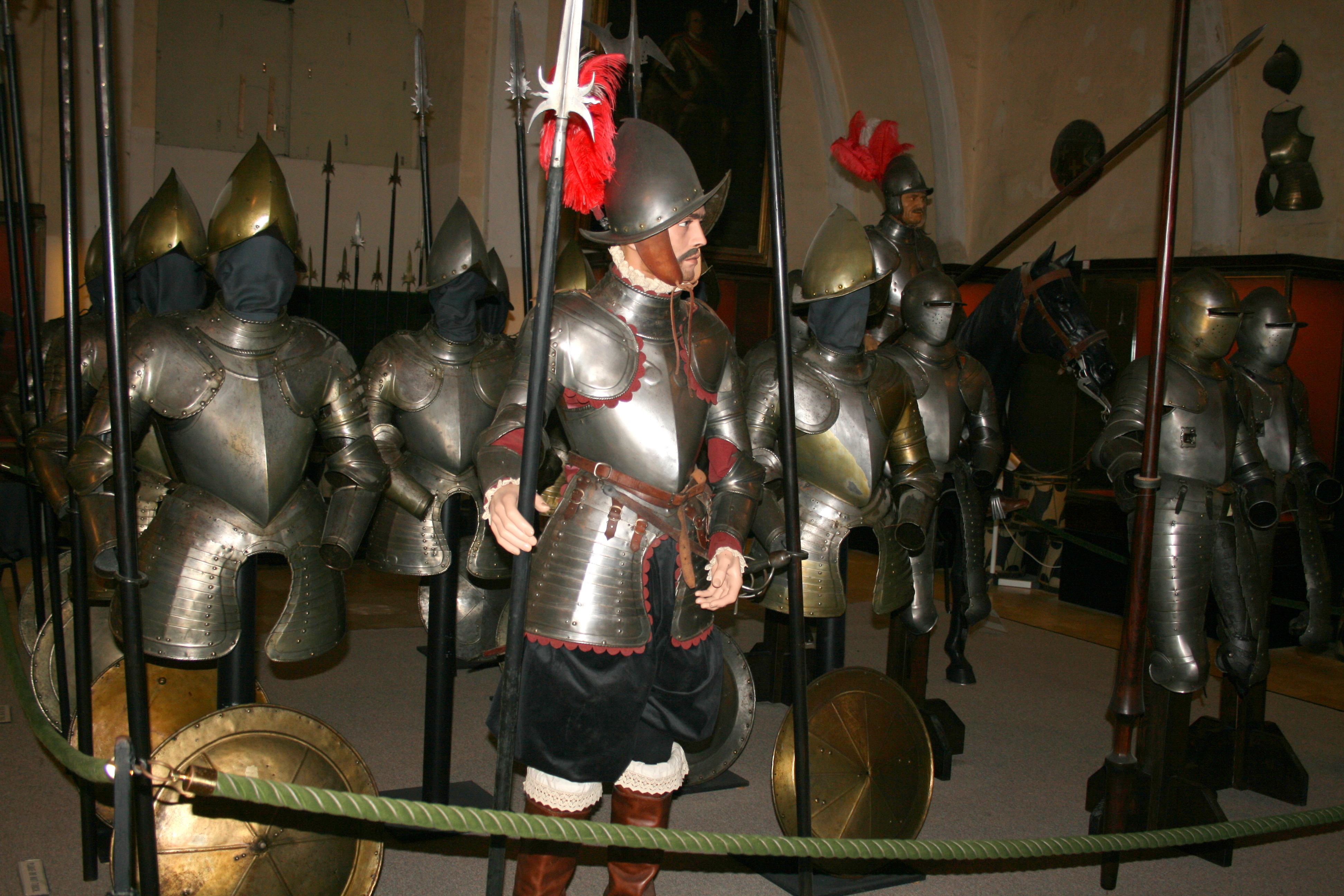 Spanish conquistador style armour